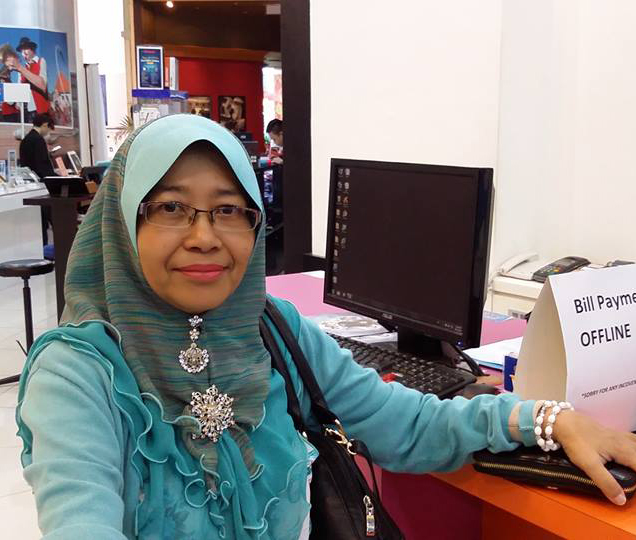 Puan Nor Fauziah Binti Rhan